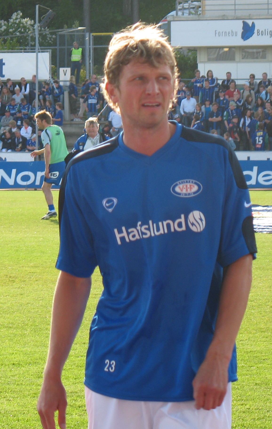 Norwegian footballer Tore André Flo.